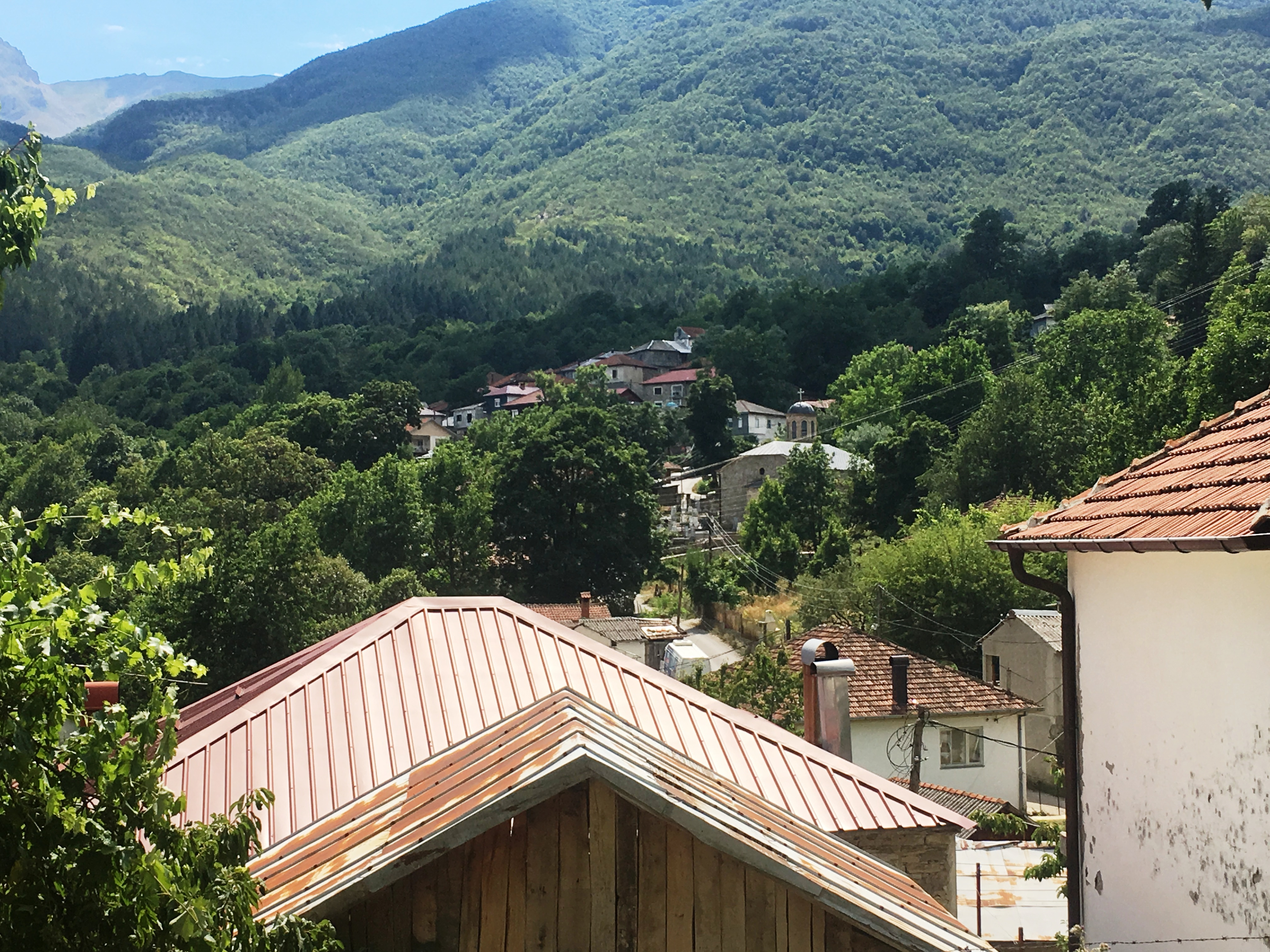 View of the village of Bituše